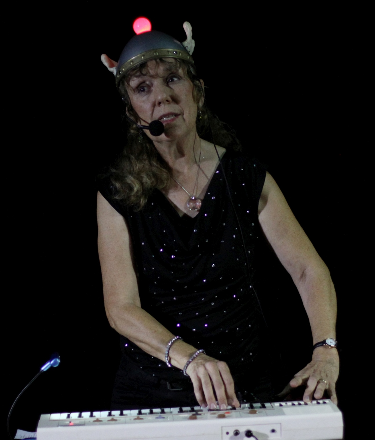 The Space Lady (Susan Dietrich), September 10, 2014